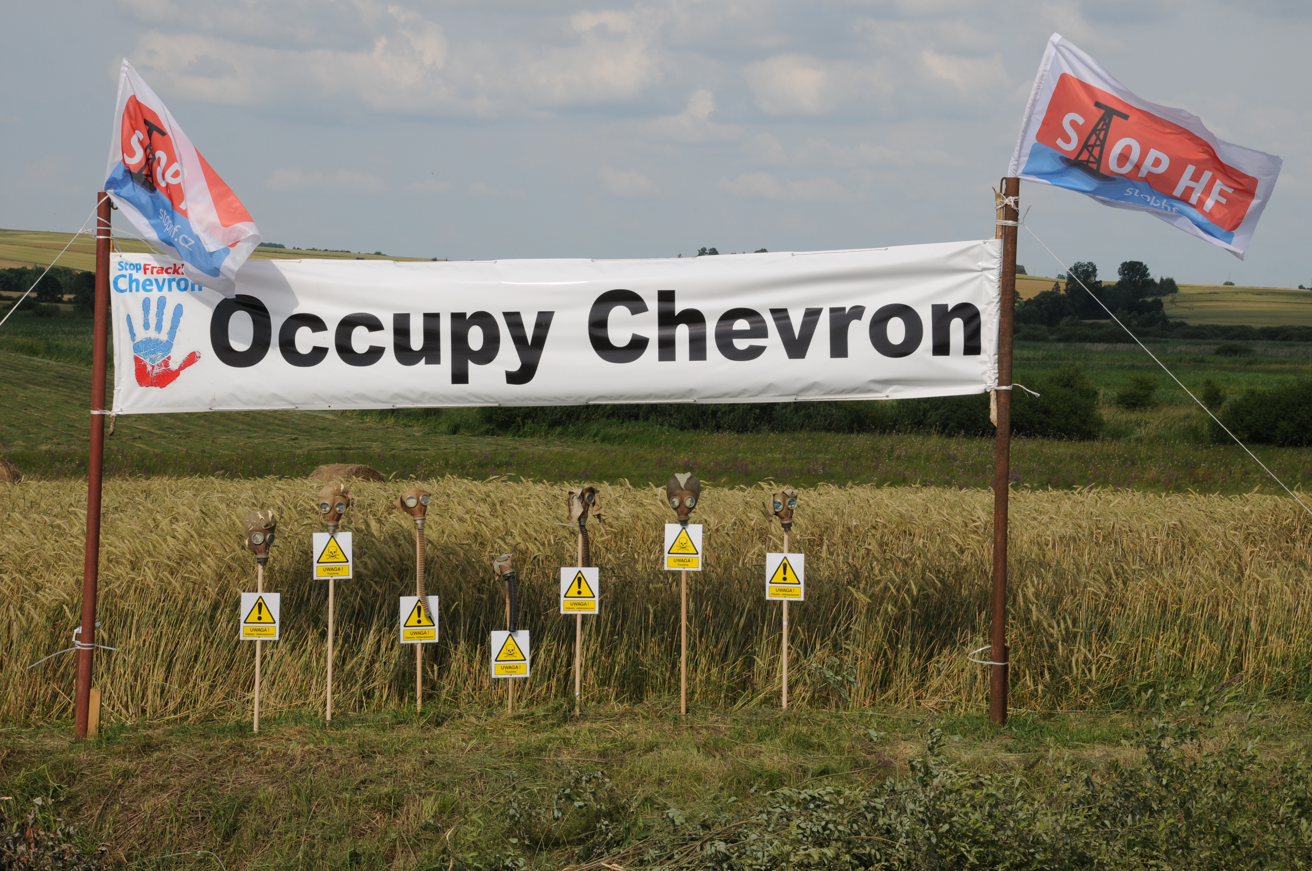 Protest Occupy Chevron Żurawlów